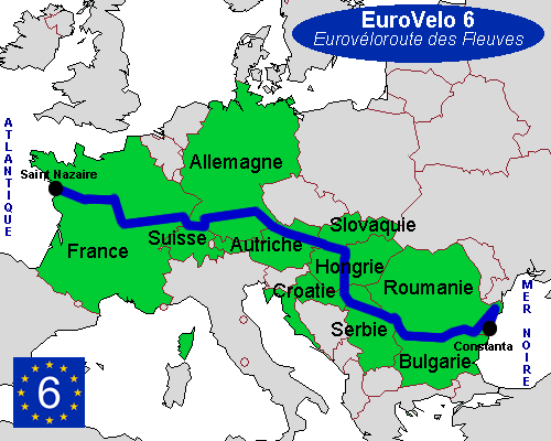 map of EV6